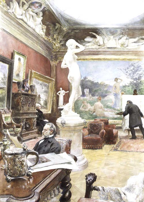 1853 - 1919, Swedish Interior from the Furstenberg Gallery